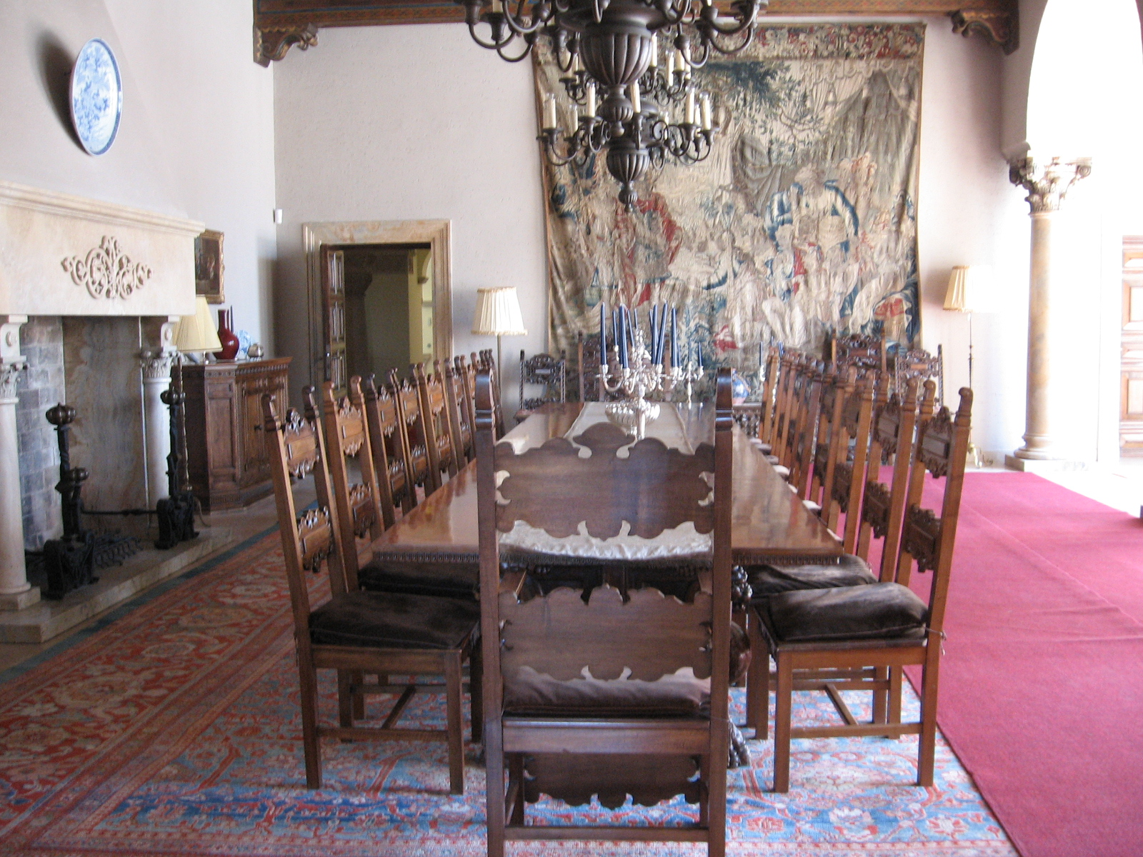 Kraljevski Dvor in Royal Compound, Belgrade - Dining room